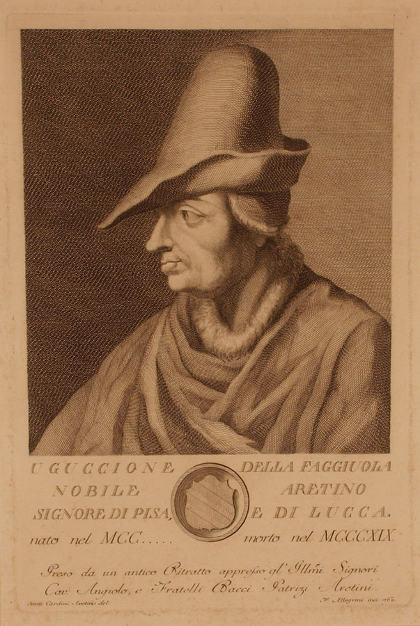 Engraving of Uguccione della Faggiuola by Francesco Allegrini da Gubbio.